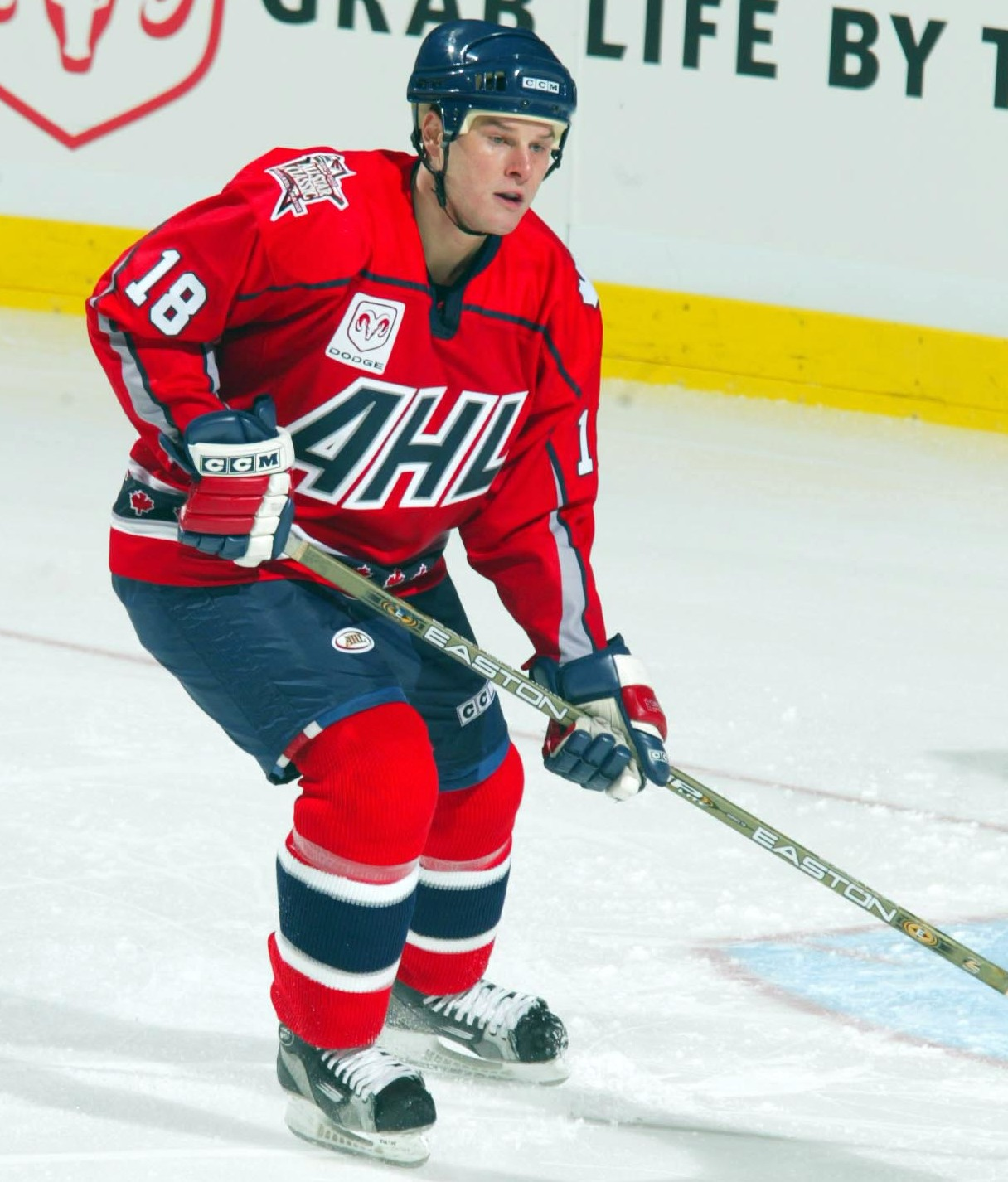 Photo: Jason Pulver/AHL